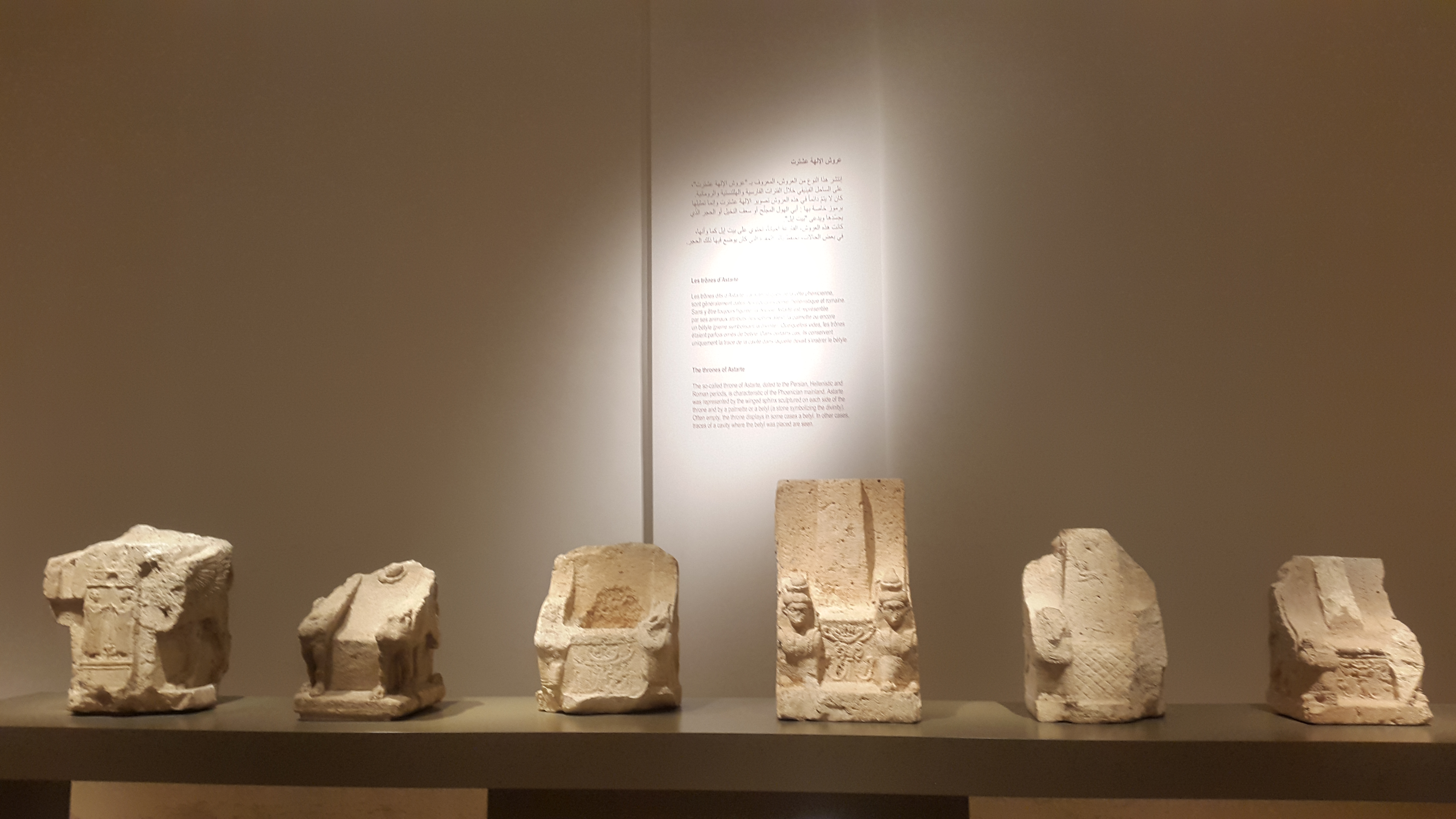 Marble Thrones at Beirut National Museum